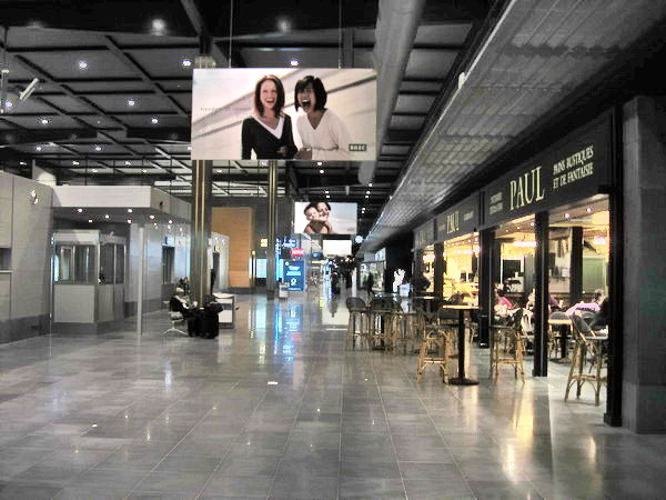 Charleroi Airport. View from Arrivals.